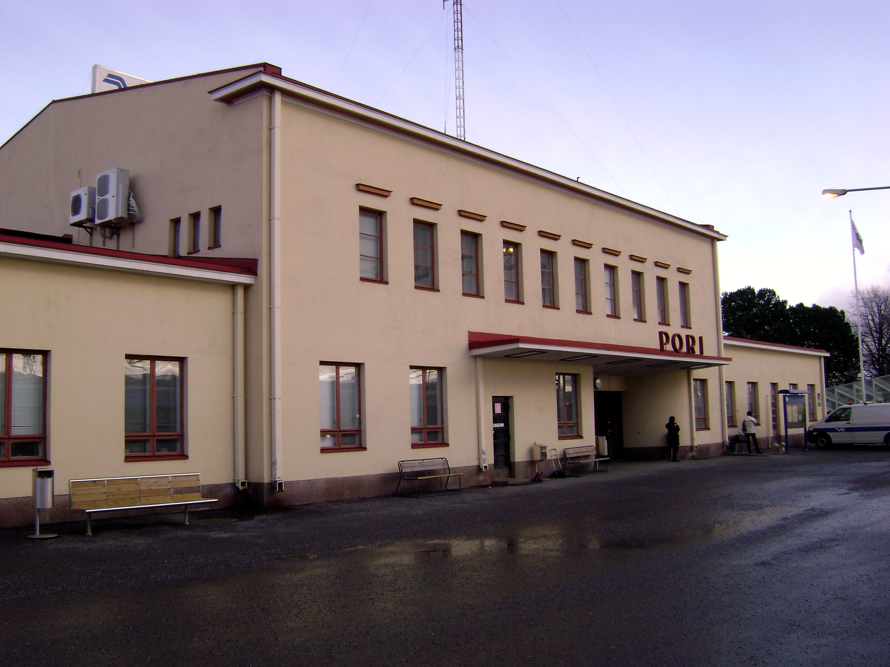 Pori railway station